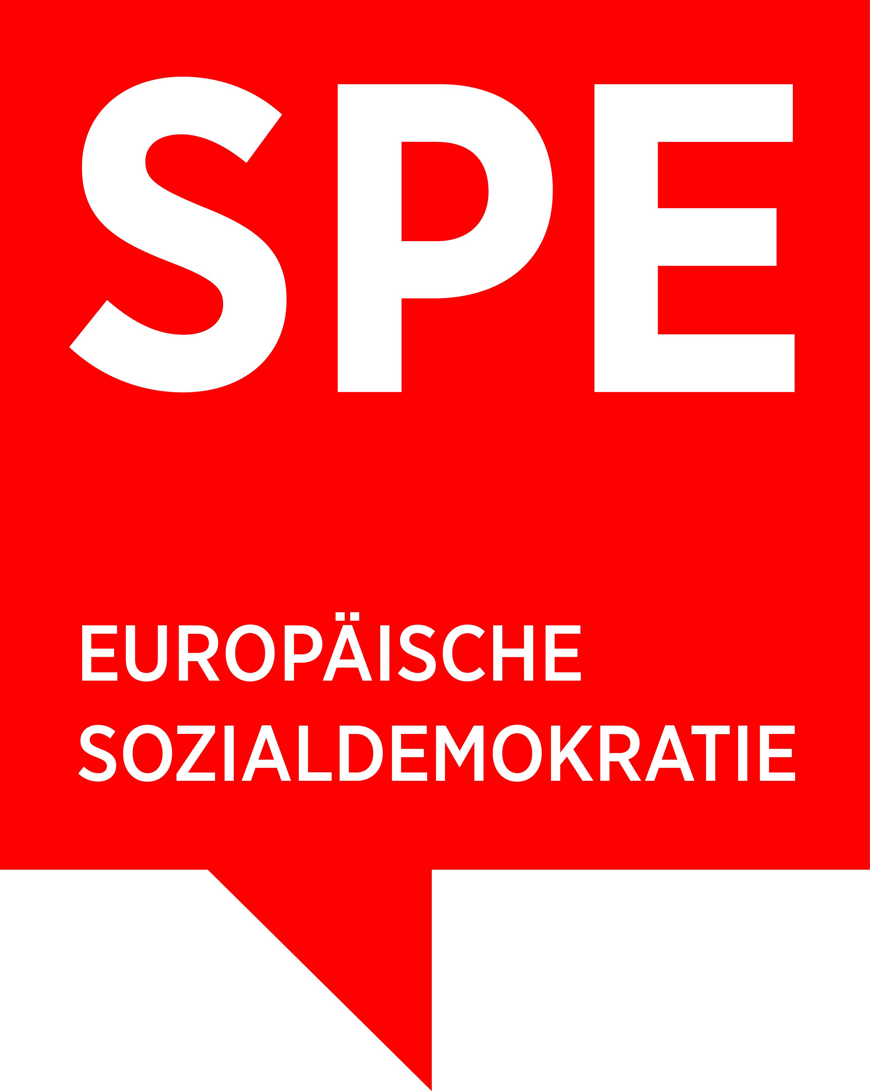 Logo auf Deutsch